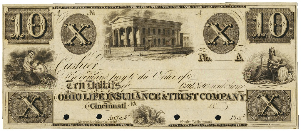 10 dollar bank note issued by the Ohio Life Insurance and Trust Company of Cincinnati, Ohio, in the United States. This bank note was designed and engraved by the Western Bank Note Co., which was owned and operated by William Woodruff and John T. Hammond in 1839 and 1840. (For dating, see: Haverstock, Mary Sayre; Vance, Jeannette Mahoney; Meggitt, Brian L; and Weidman, Jeffrey. Artists in Ohio, 1787-1900: A Biographical Dictionary. Kent, Ohio: Kent State University Press, 2000, p. 1599. ISBN 9780873386166